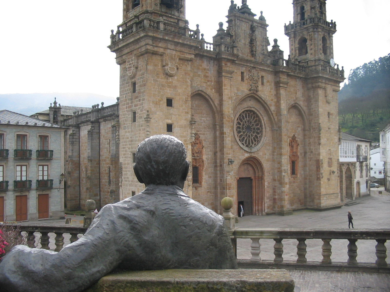 Spanish/Galician Writer Alvaro Cunqueiro statue on Mondoñendo